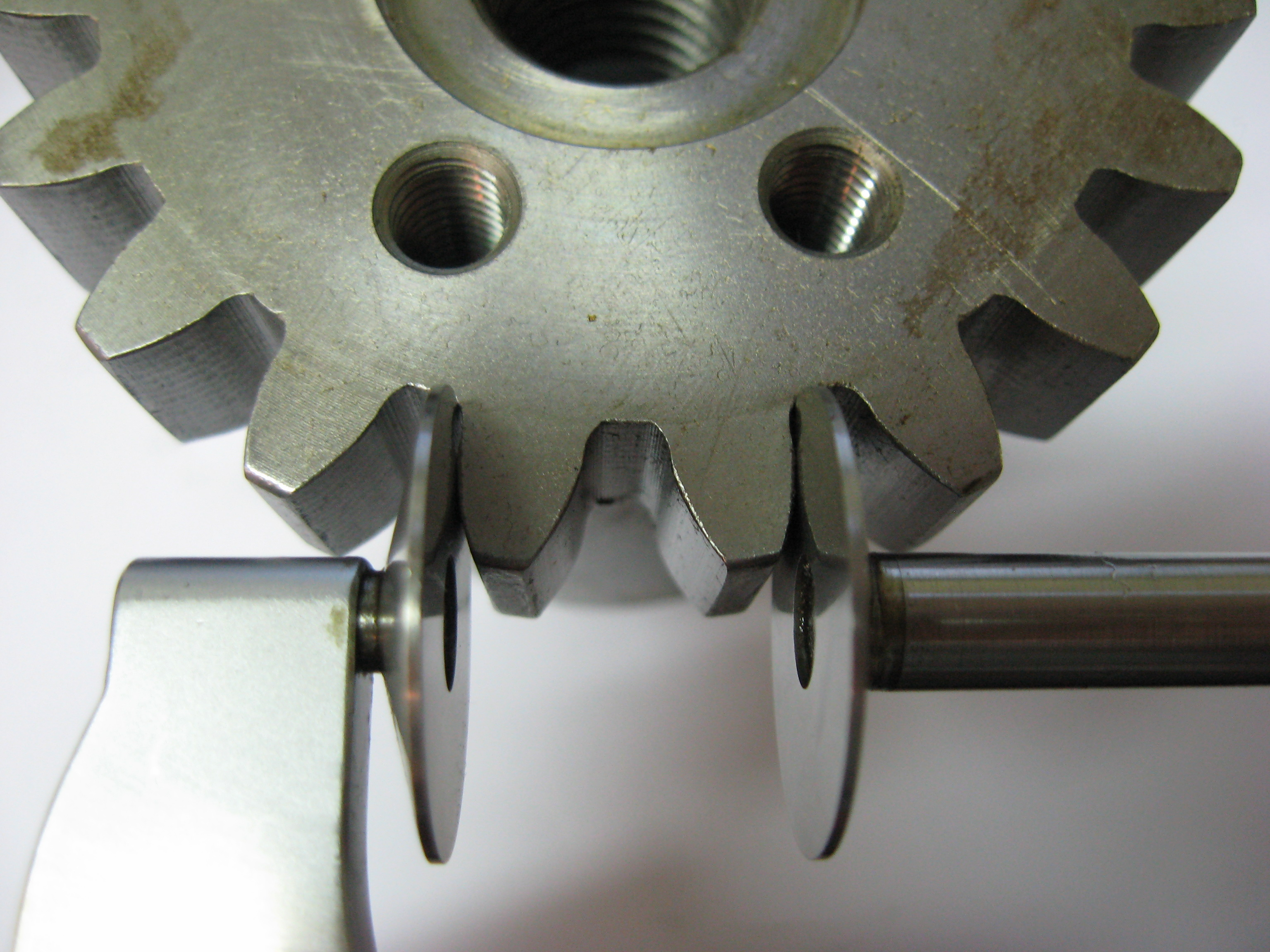 False Measuring of the Tooth Width of a Gear Wheel